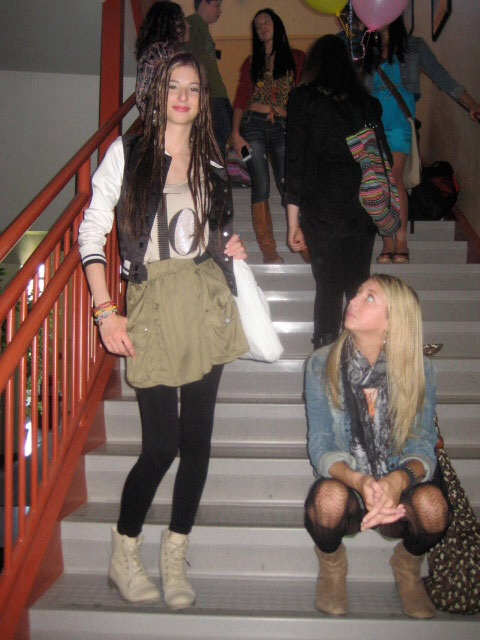 Behind the set of girlfight